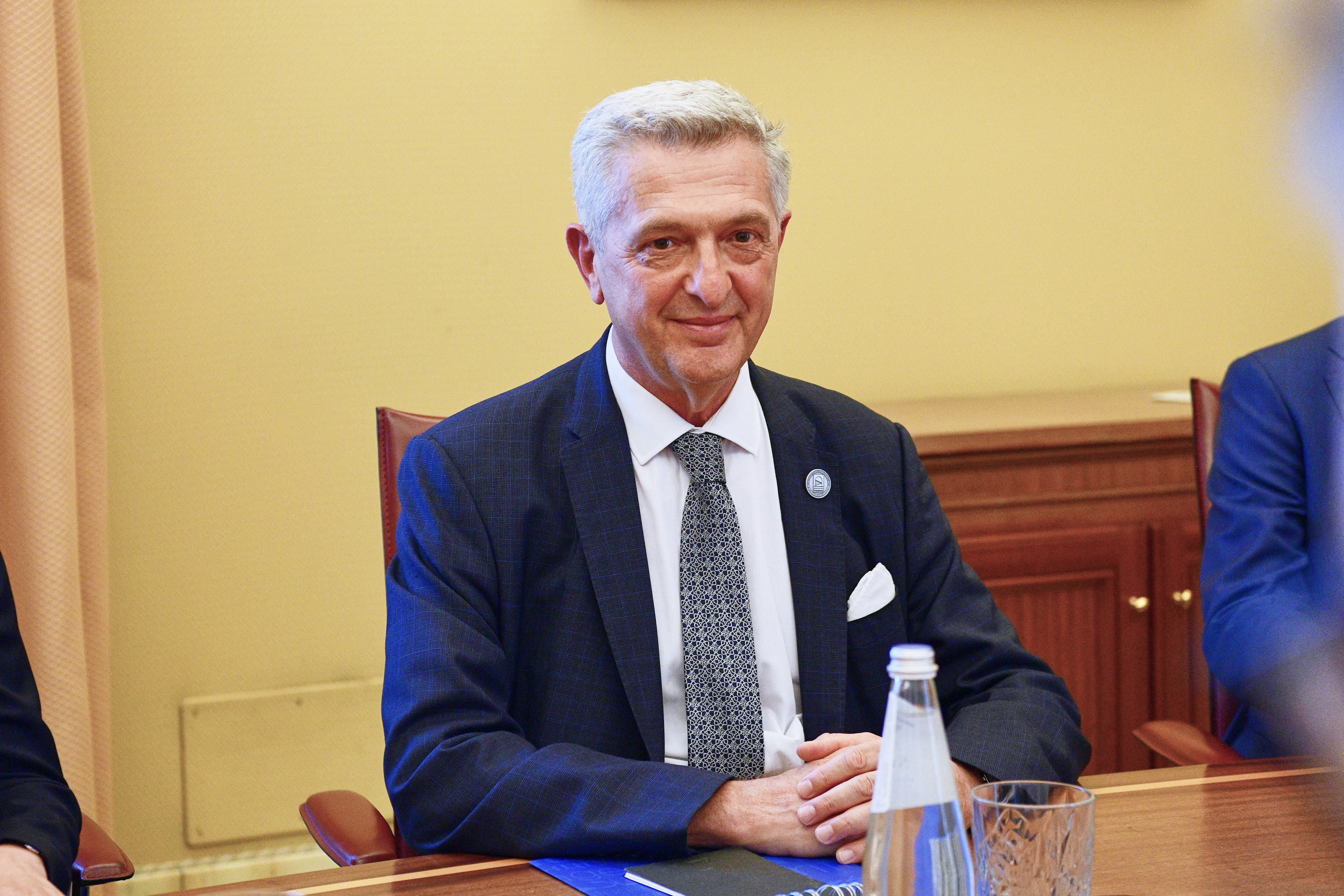 Filippo Grandi